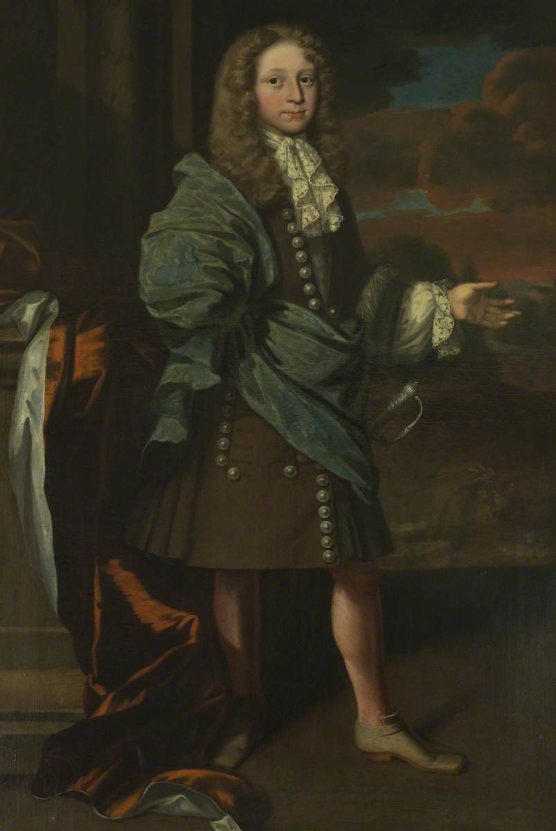 John Erskine, 6th Earl of Mar, as a young boy, full-length, in a brown coat, green drapery & a lace cravat